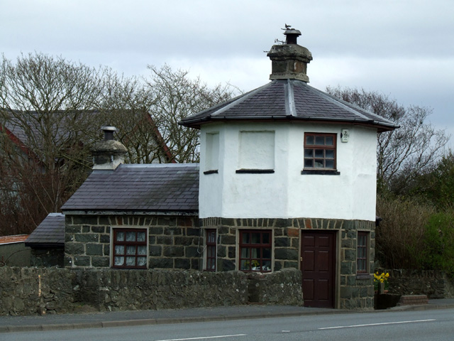 Old Tollhouse Old tollhouse on the A5 outside Gwalchmai